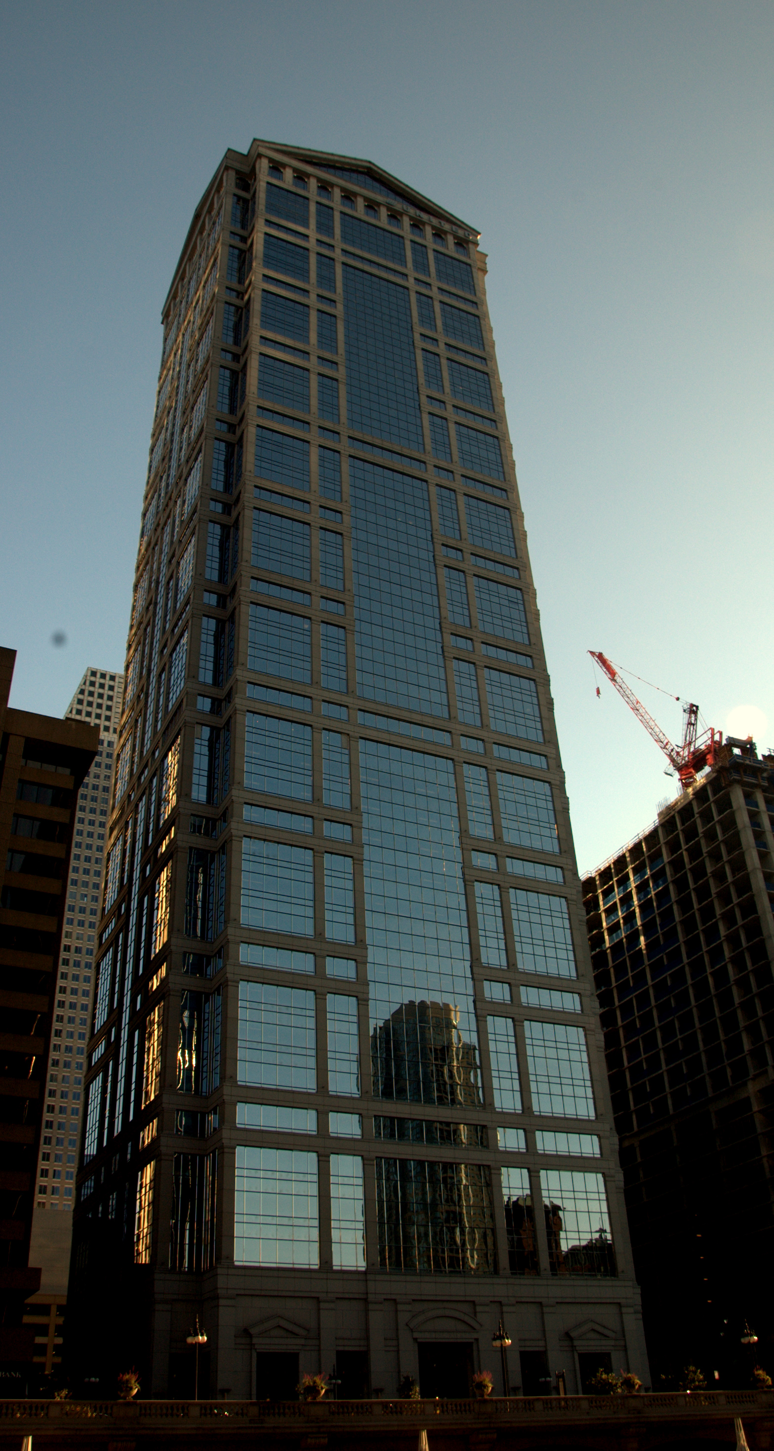 77 West Wacker Drive, the headquarters of United Airlines, Continental Airlines, and United Continental Holdings - The former headquarters of RR Donnelley